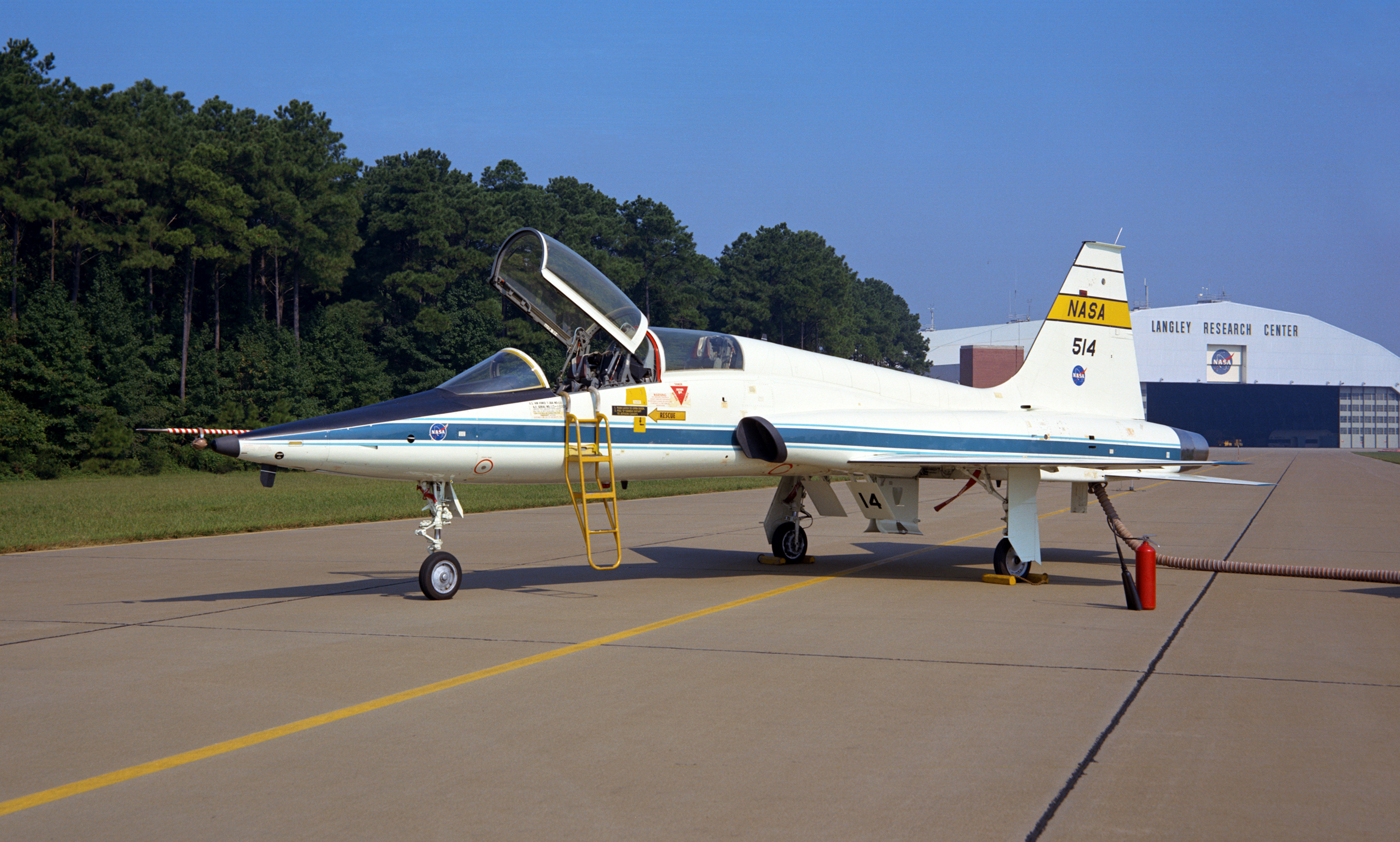 This Northrop T-38A flew at Langley from 1972 until 1980, when it was returned to the Johnson Space Center's flight operations at Ellington AFB, Texas. While at Langley, the Talon flew as a mission support aircraft and participated in aircraft noise studies. It was also used as an adversary against the XV-6A Kestrel "jump jet" in one-on-one combat to test Vectoring in Forward Flight (VIFF).